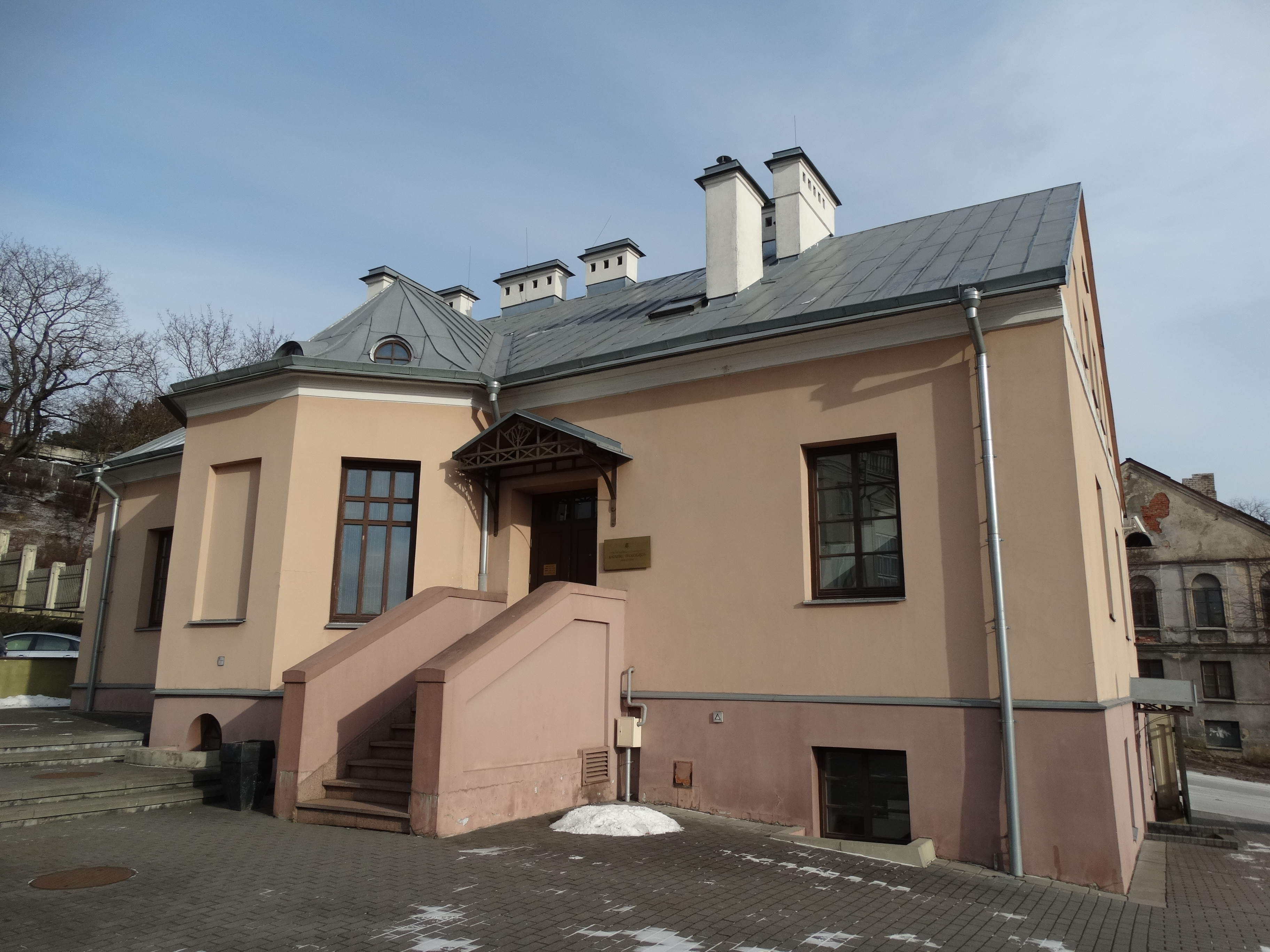 Vytautas Magnus University, Catholic Theological Faculty, Kaunas, Lithuania